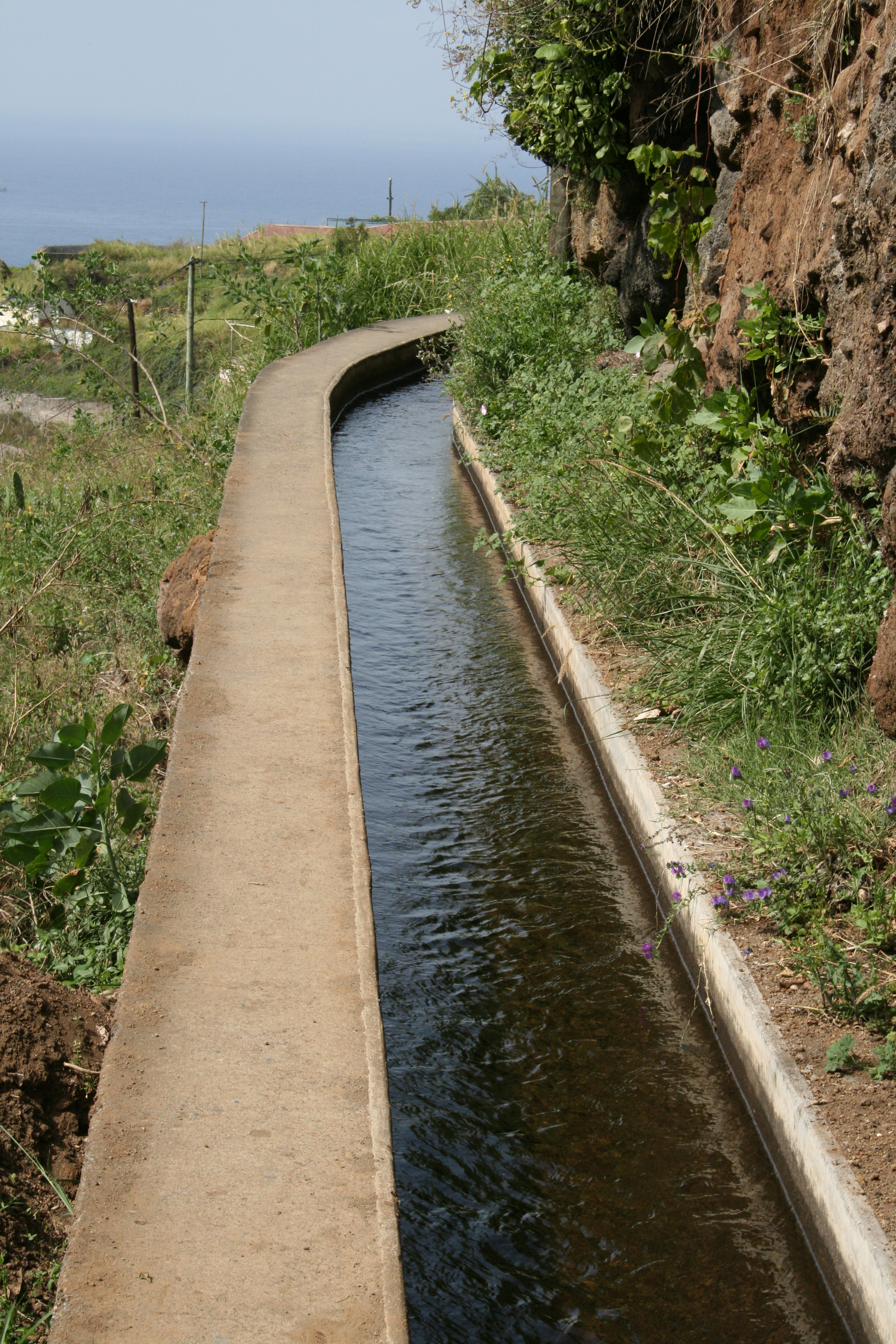 From Levada dos Piornais just west of Funchal, Madeira Norsk (bokmål): Fra Levada dos Piornais like vest av Funchal på Madeira